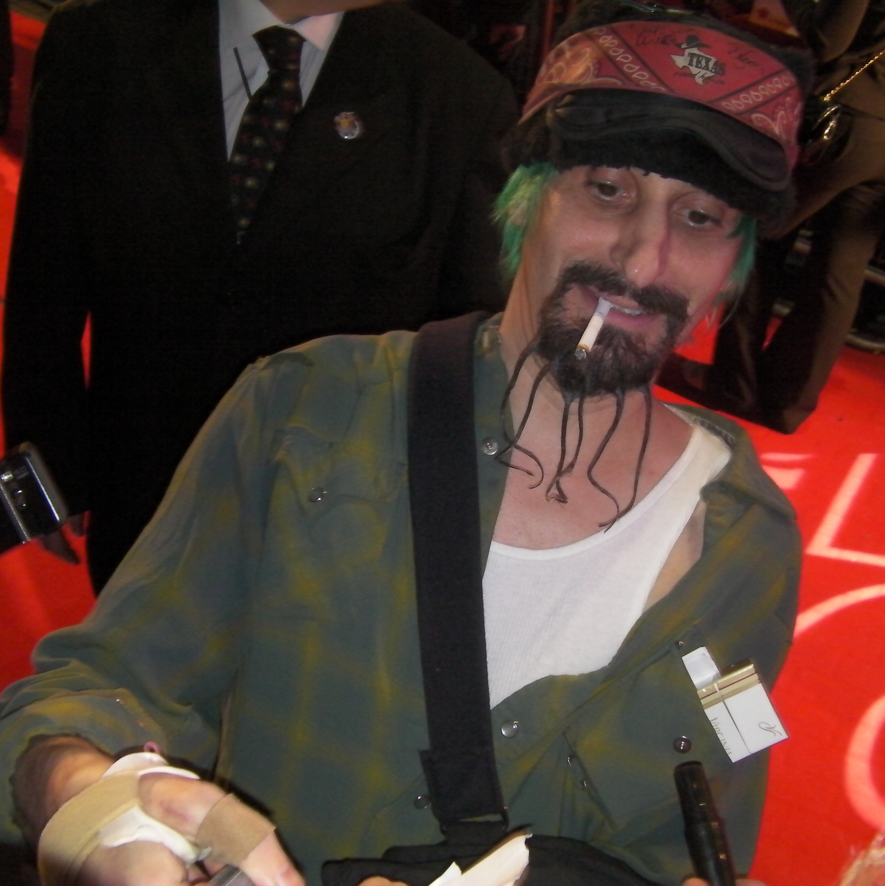 This is a photo of Loomis Fall. I took this photo during the London premiere of Jackass 3D, 2nd November 2010. Loomis still had his cast on from breaking his arm.